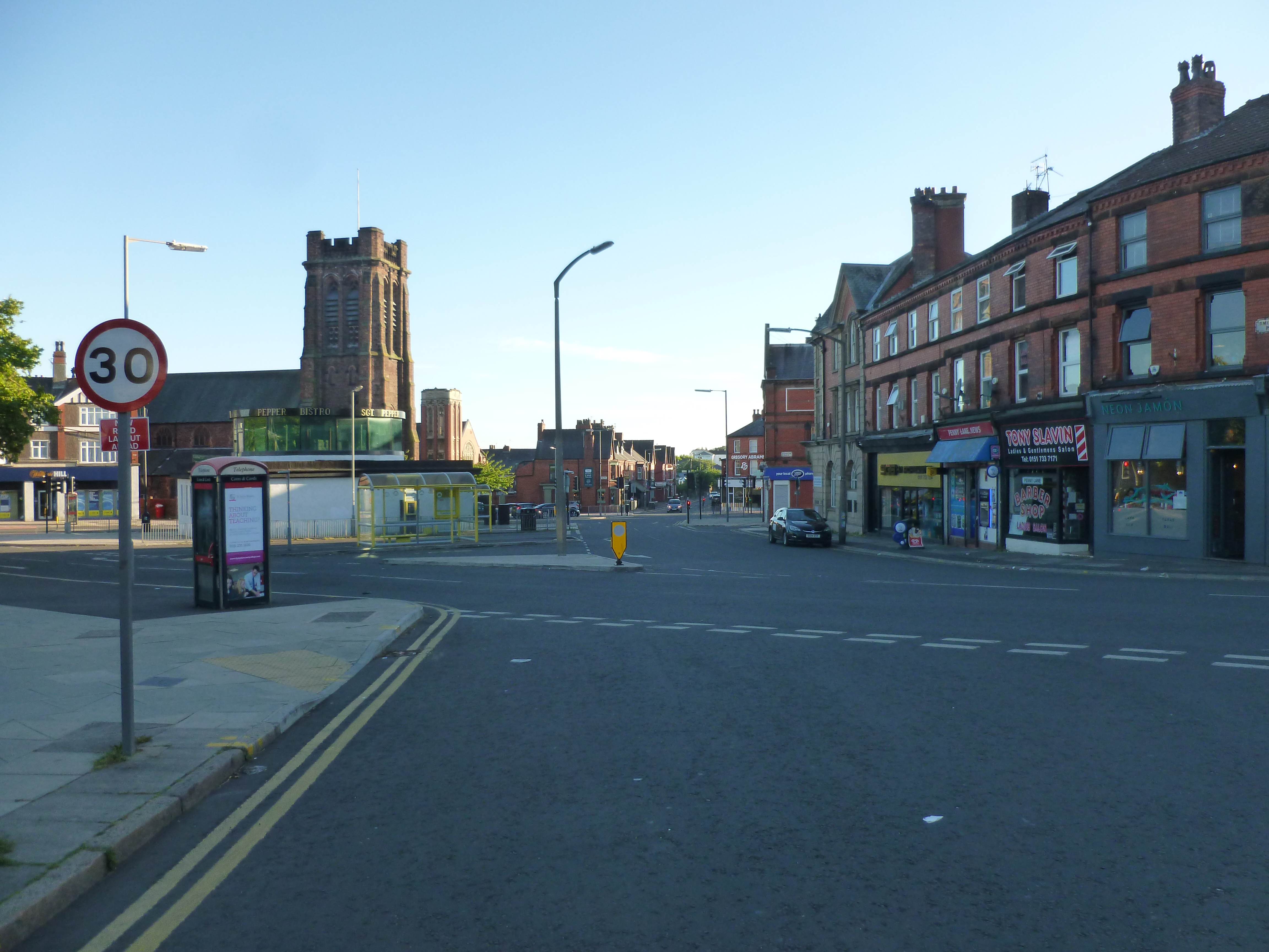 Penny Lane, Liverpool. Photo taken standing in Penny Lane (the street), showing all along Penny Lane (the street). At the right it can be seen the barber shop. At the left it can be seen the roundabout and St. Barnabas Church